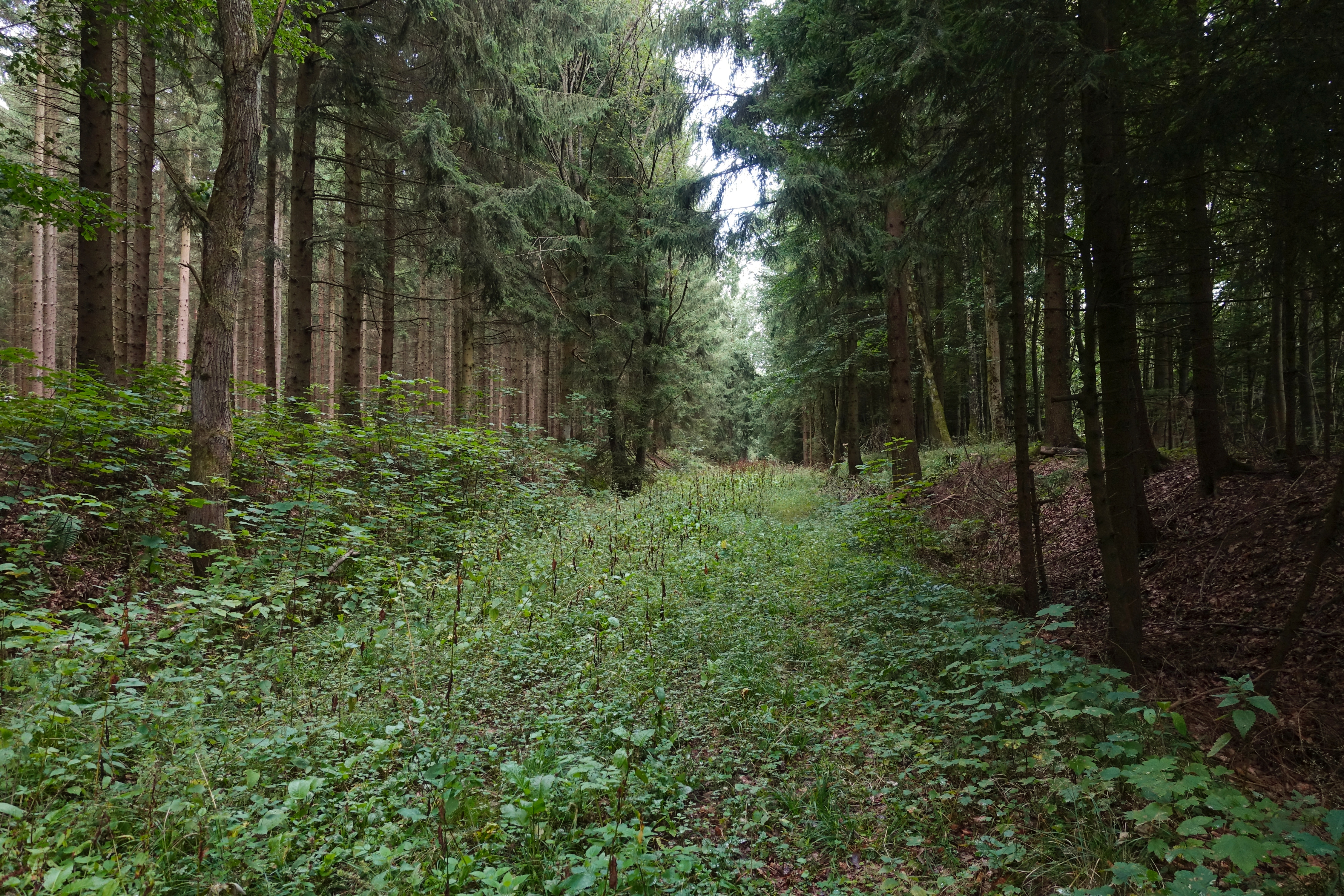 Former siding (rail) to the military airfield Fliegerhorst Dornberg (1937-1945)